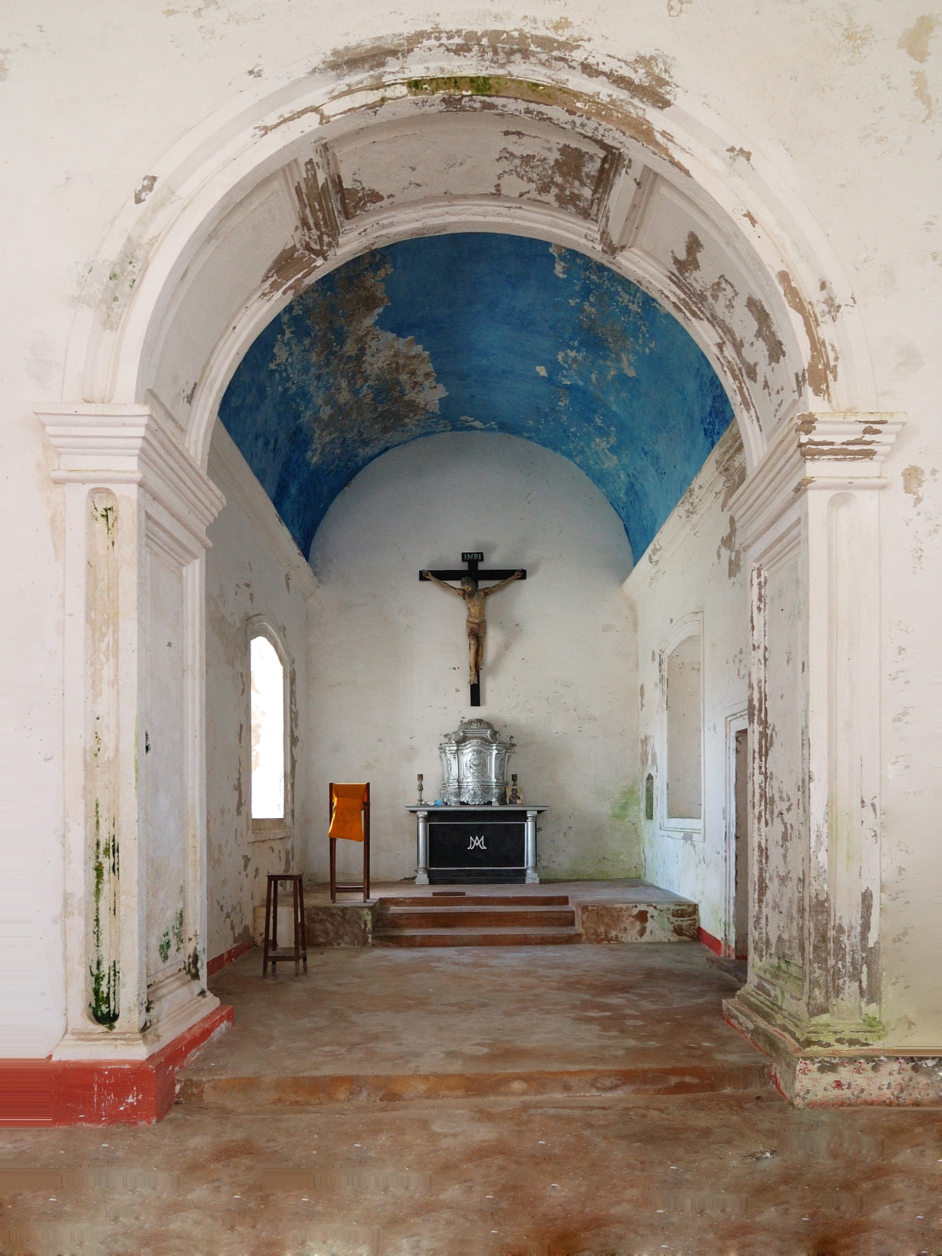 Interior of Santo António Church in Mozambique Island.